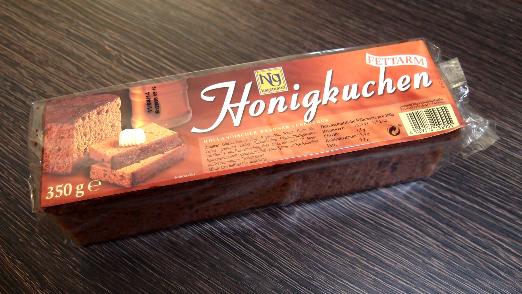 Dutch style gingerbread loaf with honey, sold in Germany as Honigkuchen (gingerbread; literally “honey cake”).